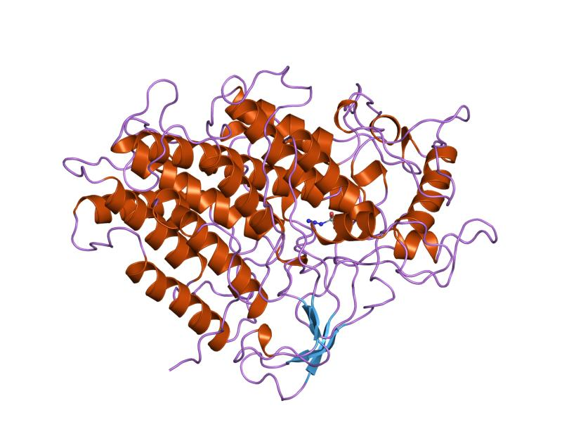 Cartoon representation of the molecular structure of protein registered with 1vnc code.